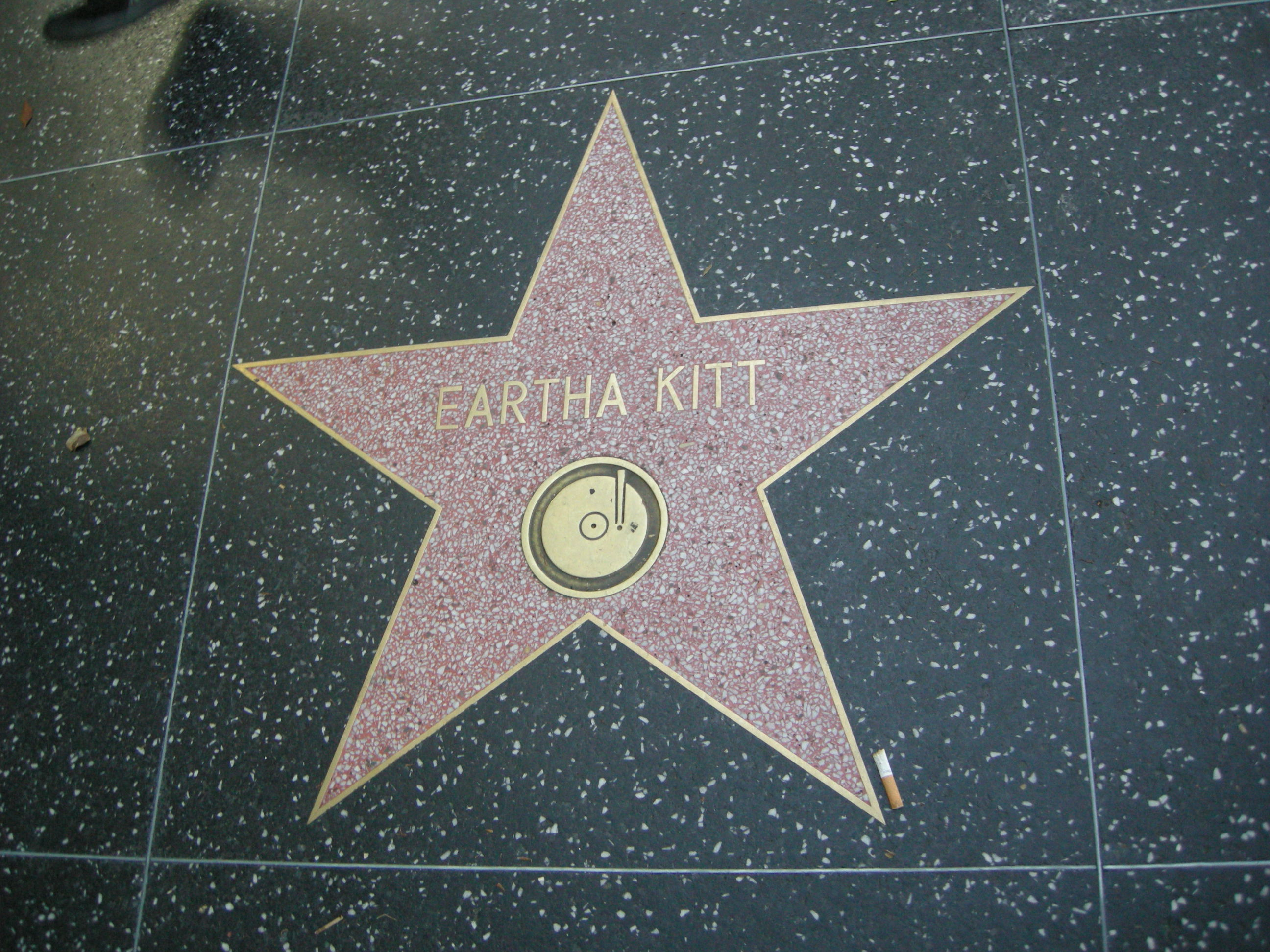 Walk of fame, eartha kitt